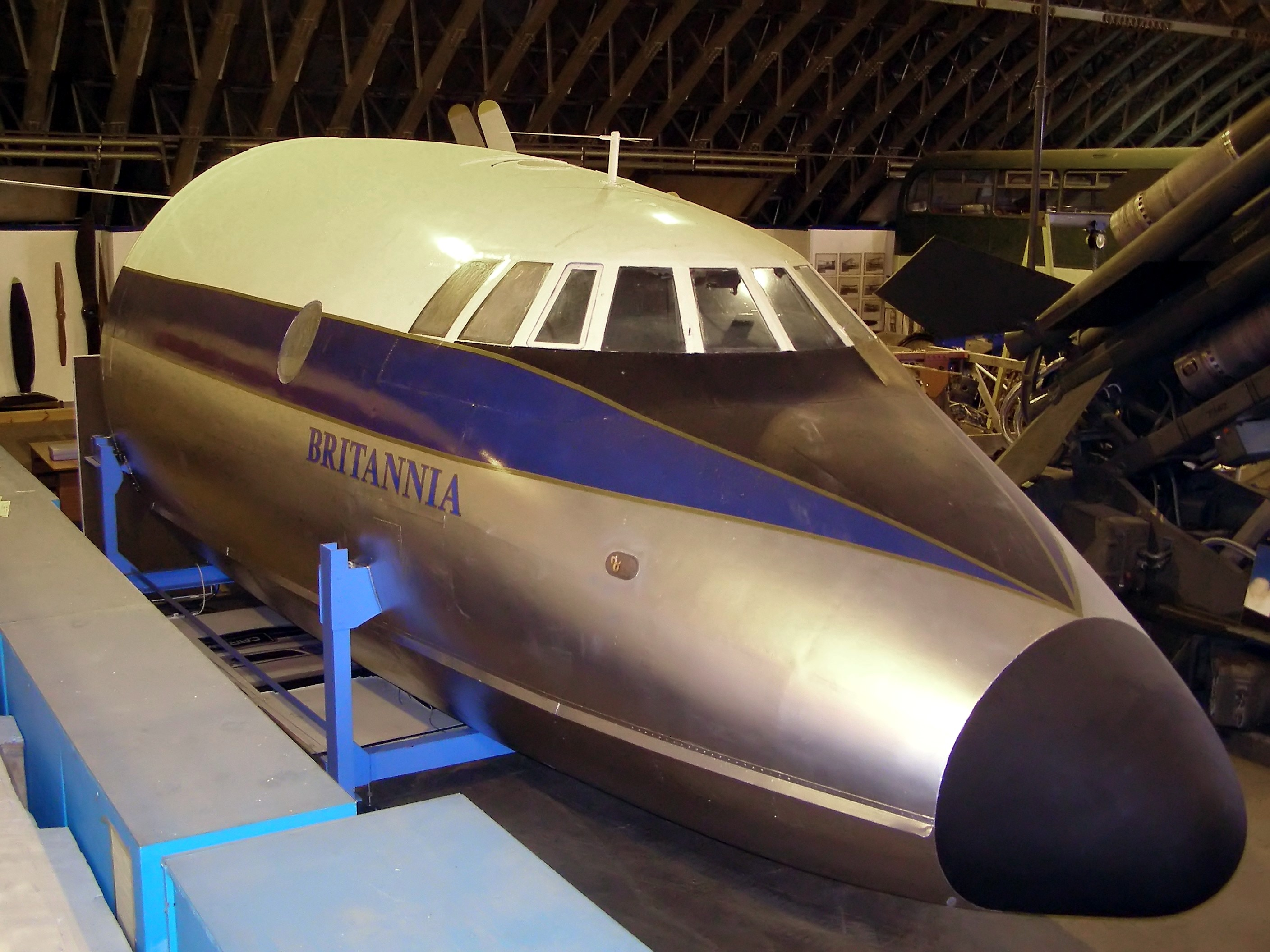 "Nose of Bristol Britannia G-ALRX at the Bristol Aero Collection, Kemble Airfield, Glocestershire, England